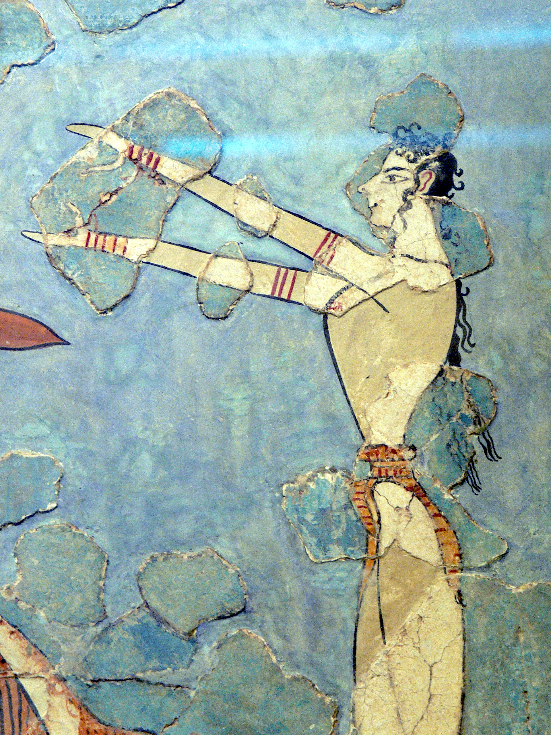 Archaeological Museum of Herakleion. Minoan bull leaping fresco ( 1600 - 1450 B.C. ) - detail